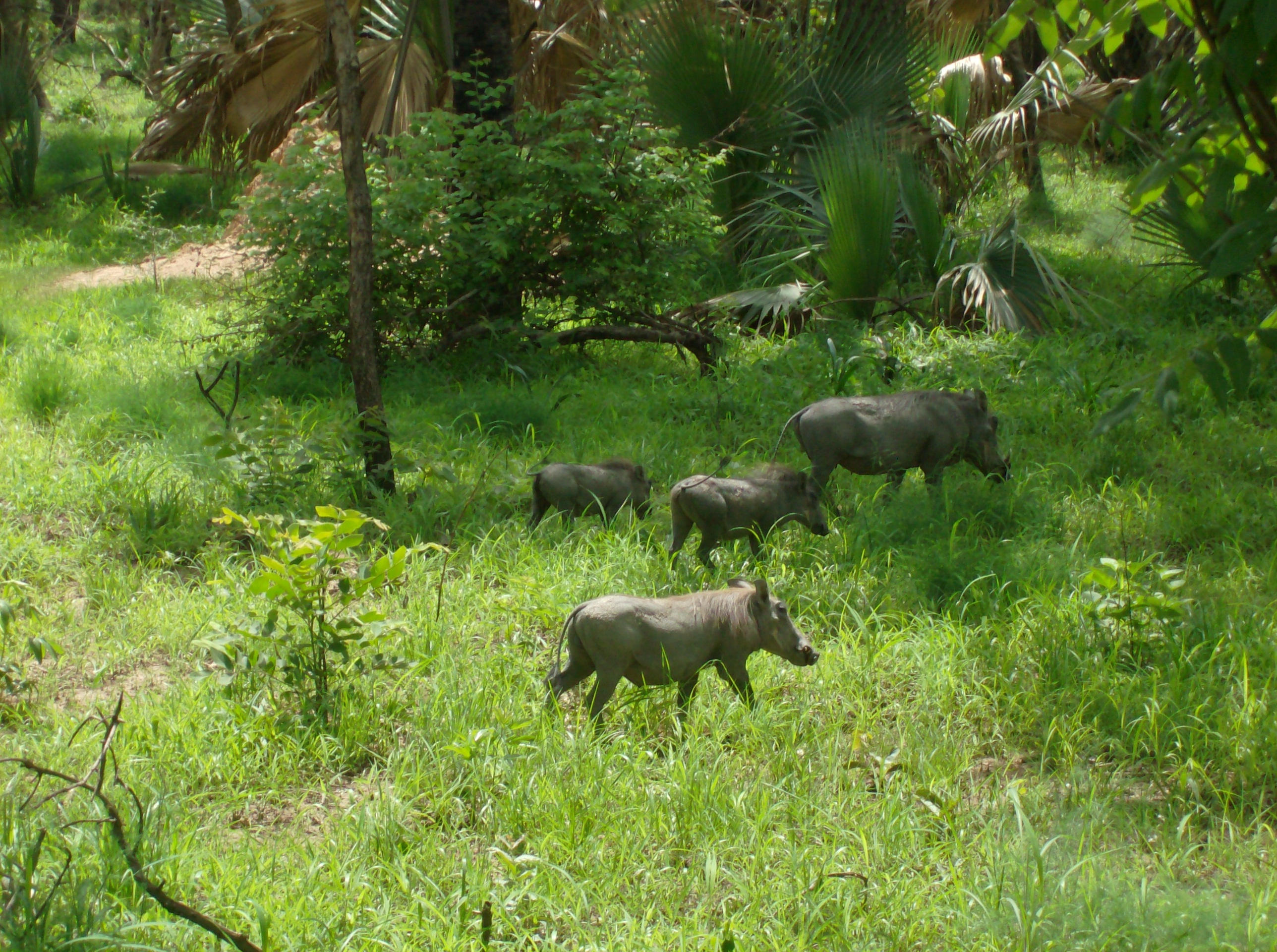 Warthog (Phacochoerus africanus) at Niokolo Koba National Park, Senegal